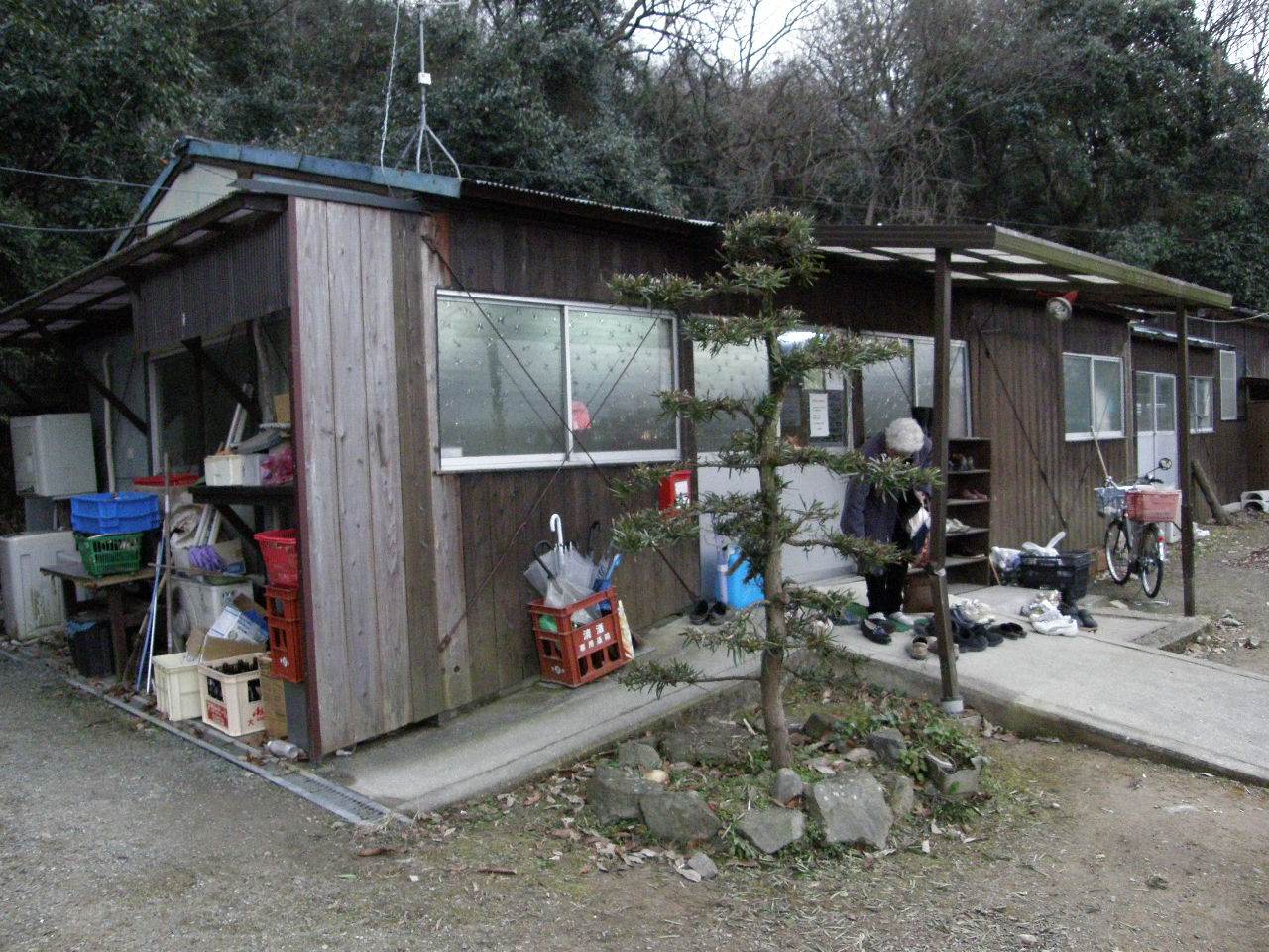 Kuwatani-onsen